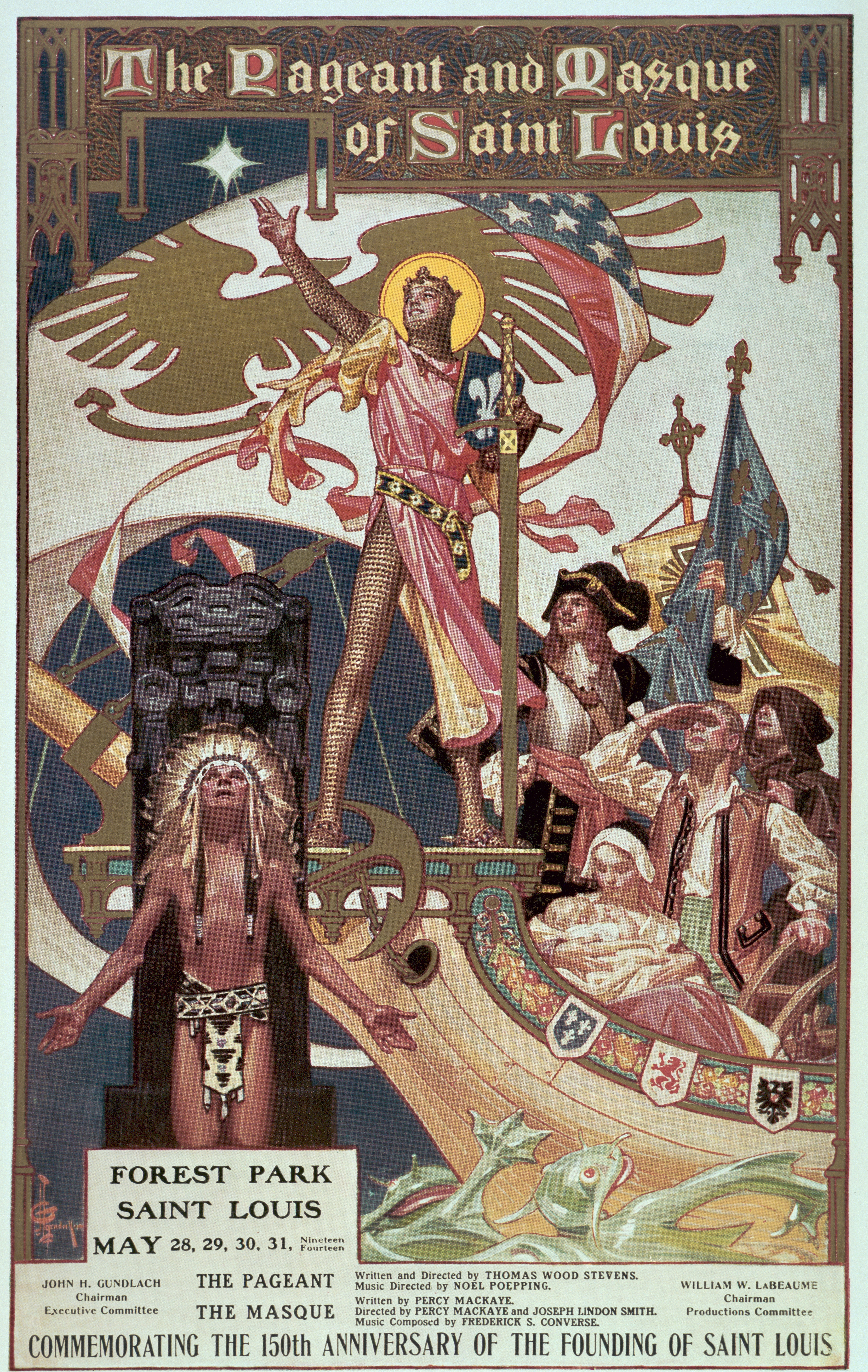 A representation of St. Louis in armor points to a star while various historical figures look up.Title: Poster: The Pageant and Masque of St. Louis, Forest Park, May 28-31, 1914